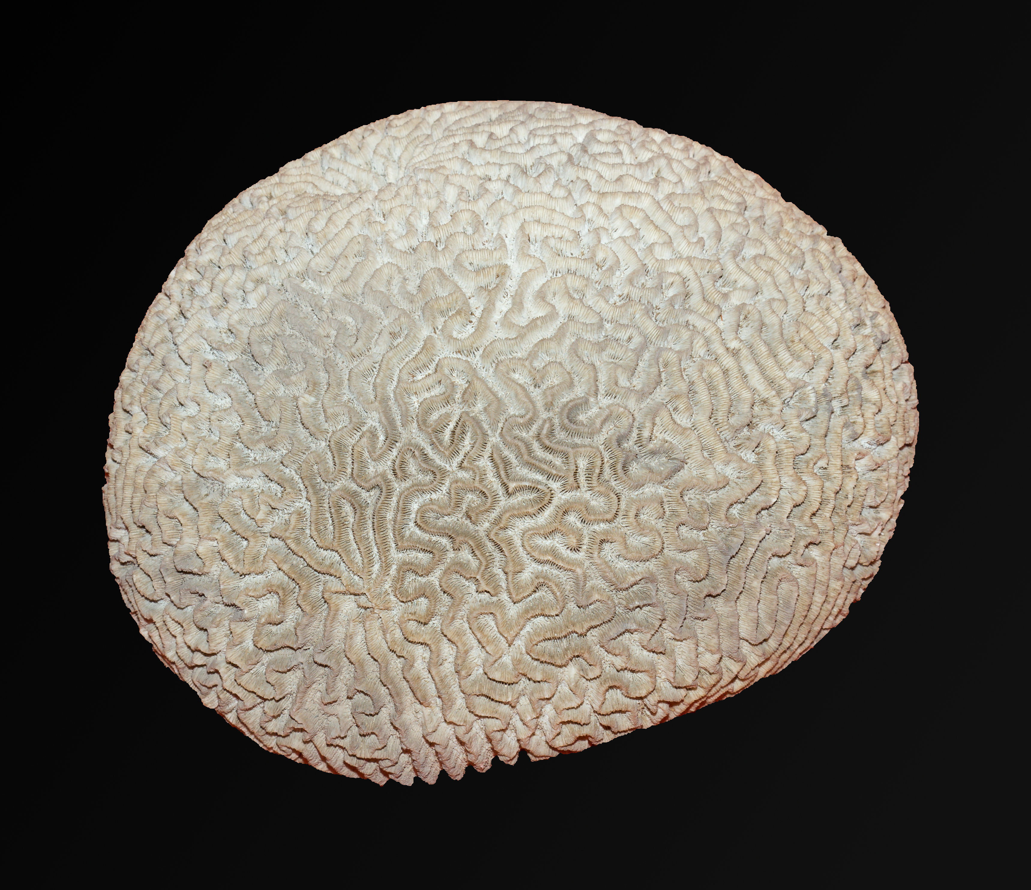 Temporary exhibition on water at the Muséum de Toulouse - A brain corail (Diploria labyrinthiformis)